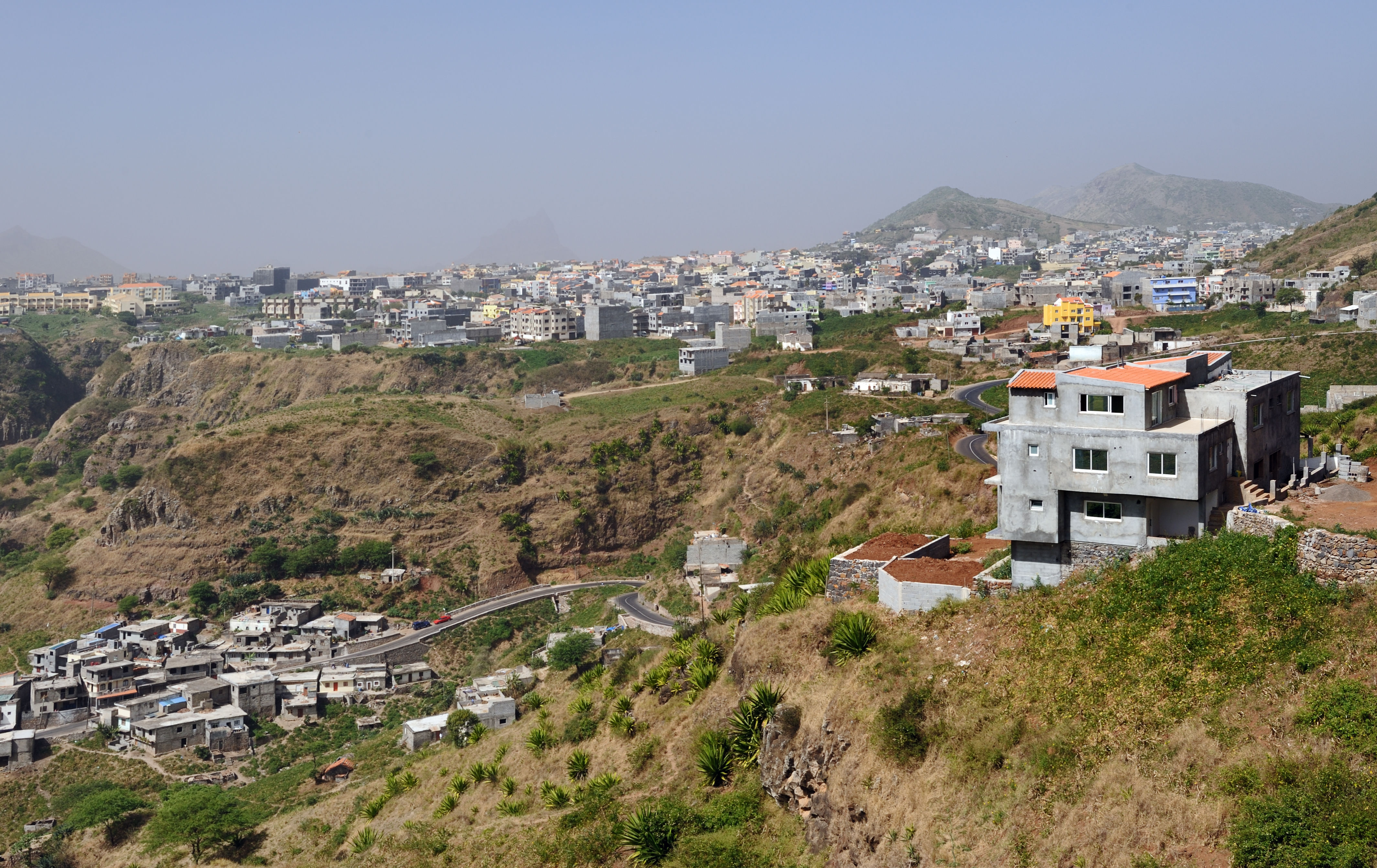 Cape Verde, isle of Santiago: the town of Assomada, approximately located in the centre of the island.